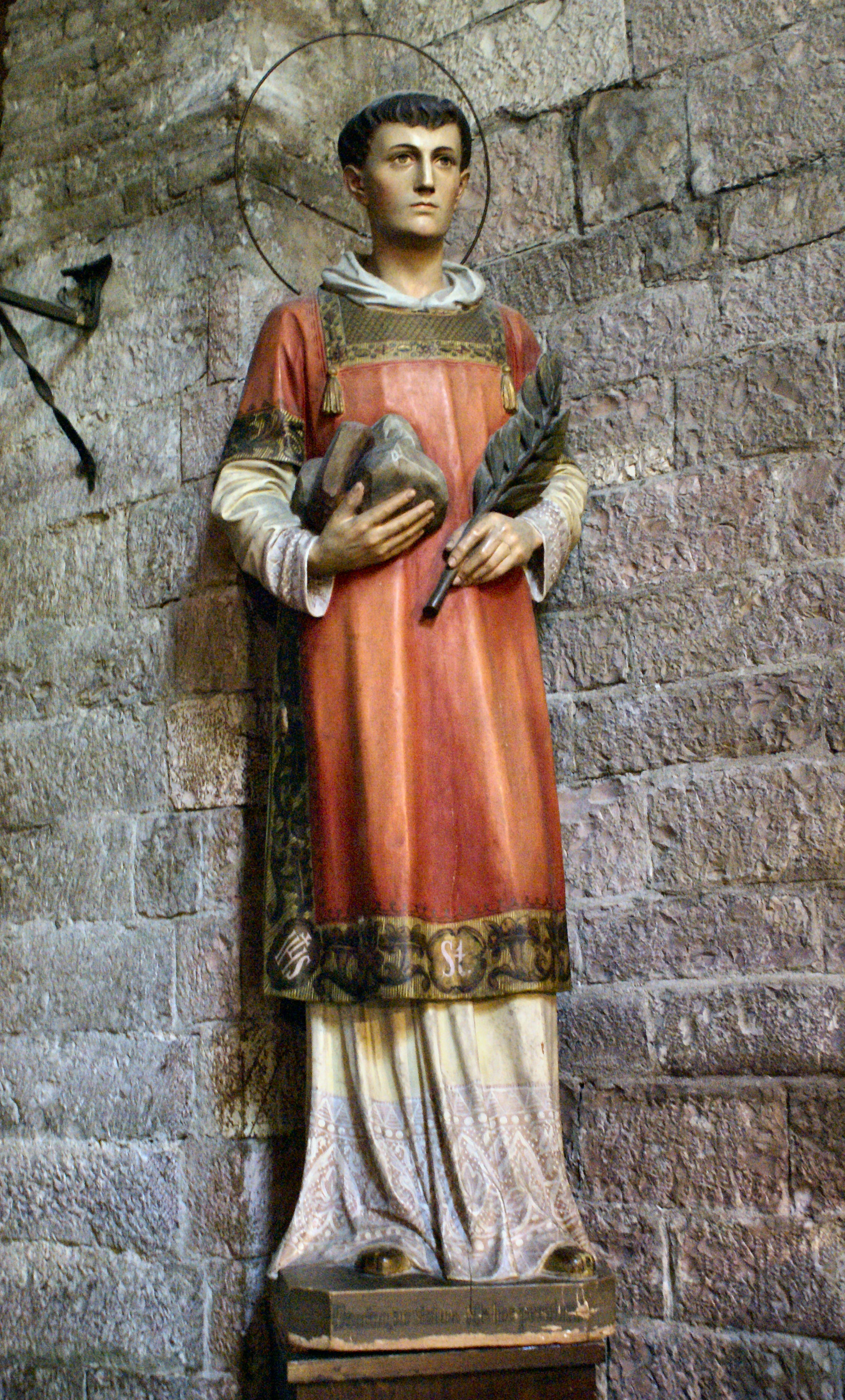 The Santo Stefano Church in Assisi